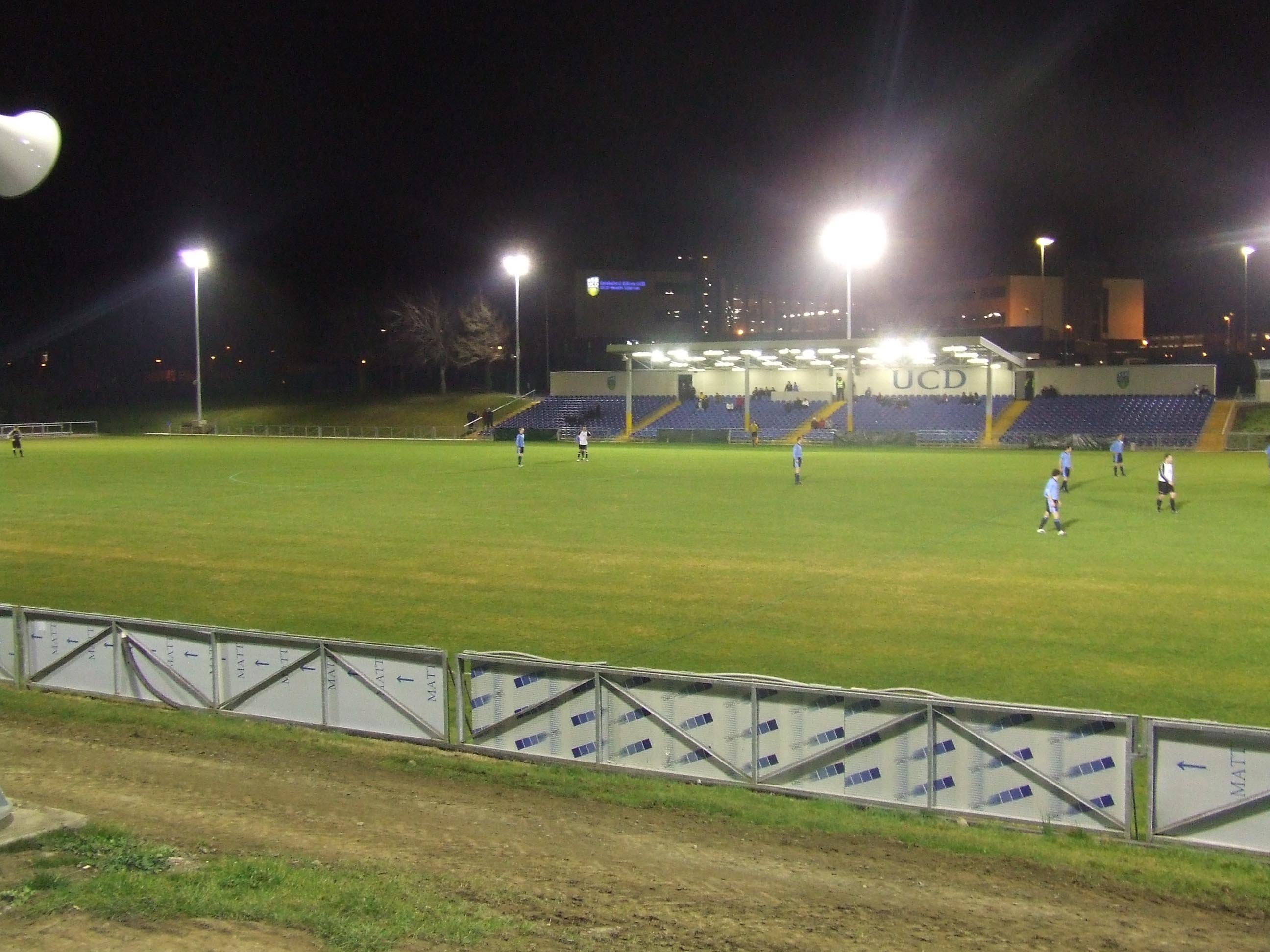 The Belfield Bowl, photo shows the stand as of 8th August 2007. It should be included in the Belfield Bowl article.